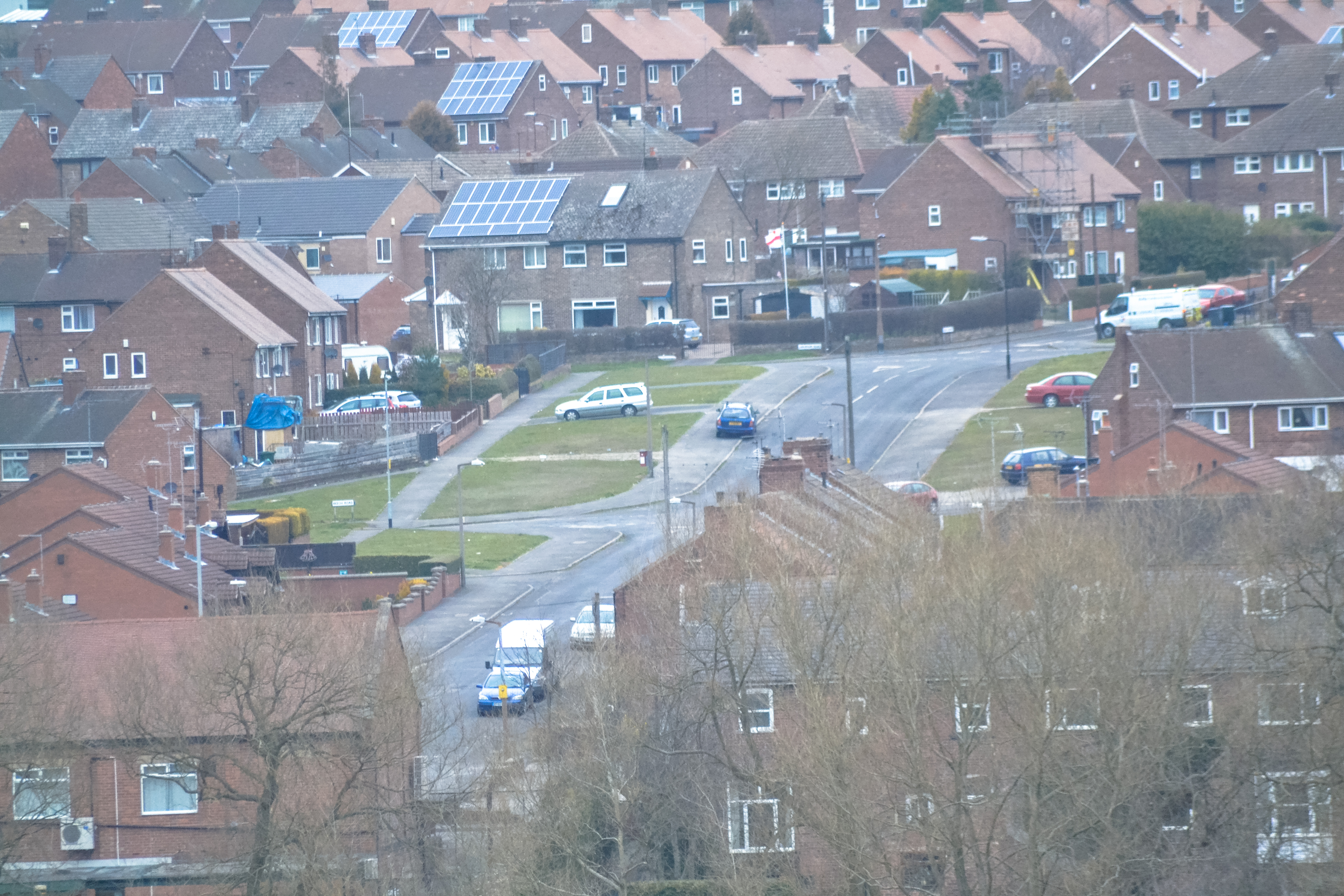 Leslie Avenue, Maltby, South Yorkshire.